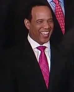 University of Louisville men's basketball assistant coach Kevin Keatts at the White House for a ceremony honoring Louisville's 2013 national championship.